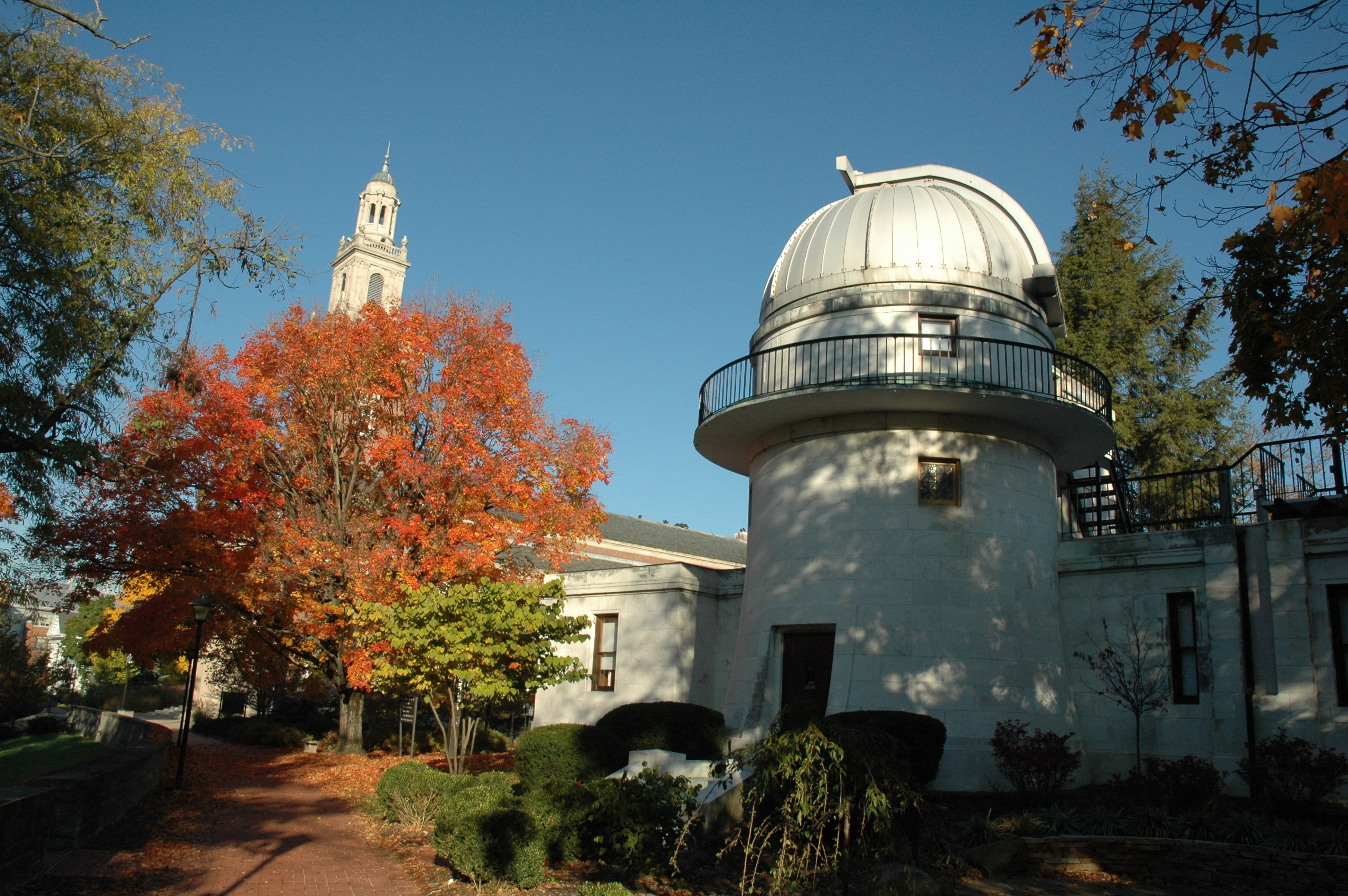 A view of Swasey Observatory and Swasey Chapel on the campus of Denison University in Granville, Ohio.